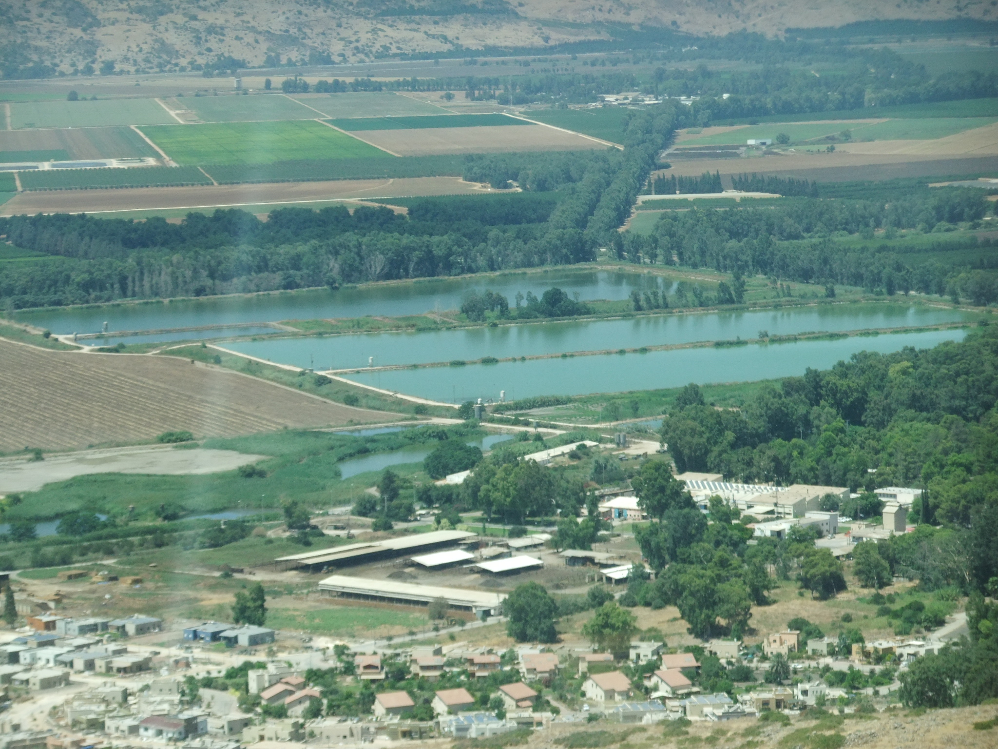 Lehavot HaBashan